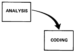 Managing the Development of Large Software Systems, Figure 1: "There is first an analysis step, followed second by a coding step"